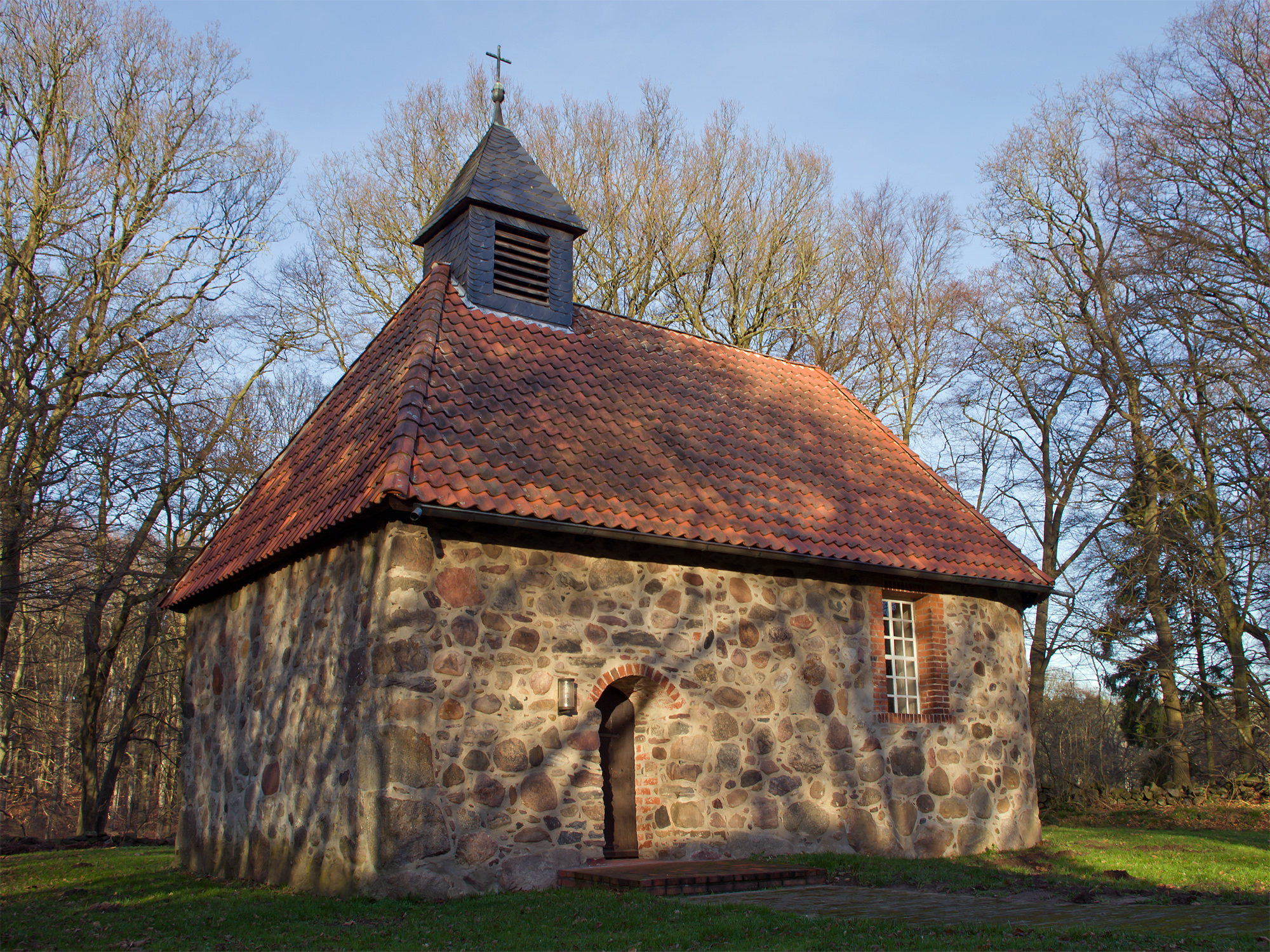 Chapel of the village Müssingen (district Uelzen, northern Germany).